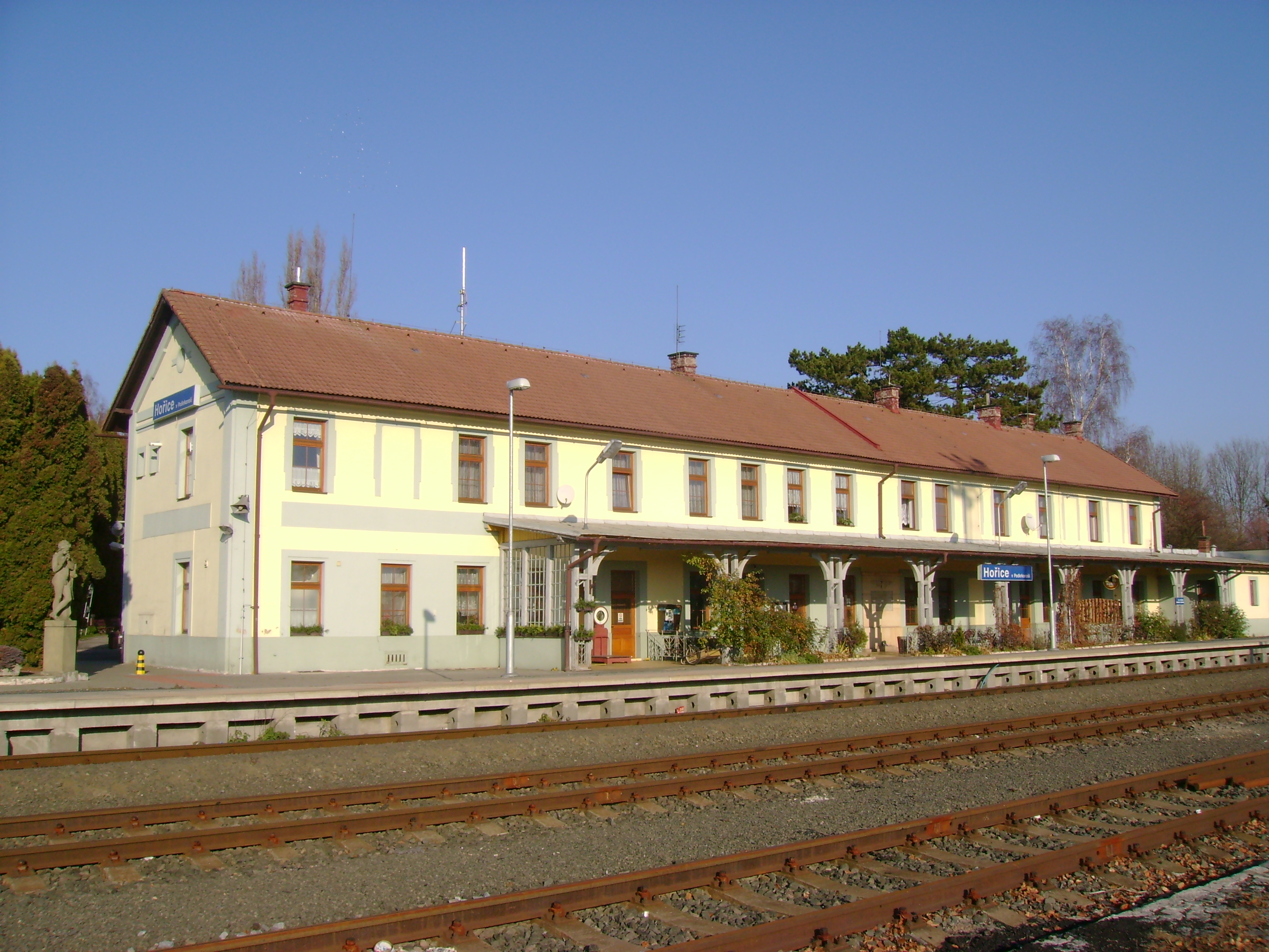 Train station Hořice v Podkrkonoší, railway line 041, in Hořice, the Czech Republic. Česky: Železniční stanice Hořice v Podkrkonoší na trati 041 v obci Hořice v okrese Jičín, kraj Královéhradecký – nádražní budova na adrese: Šalounova čp. 636, Hořice.